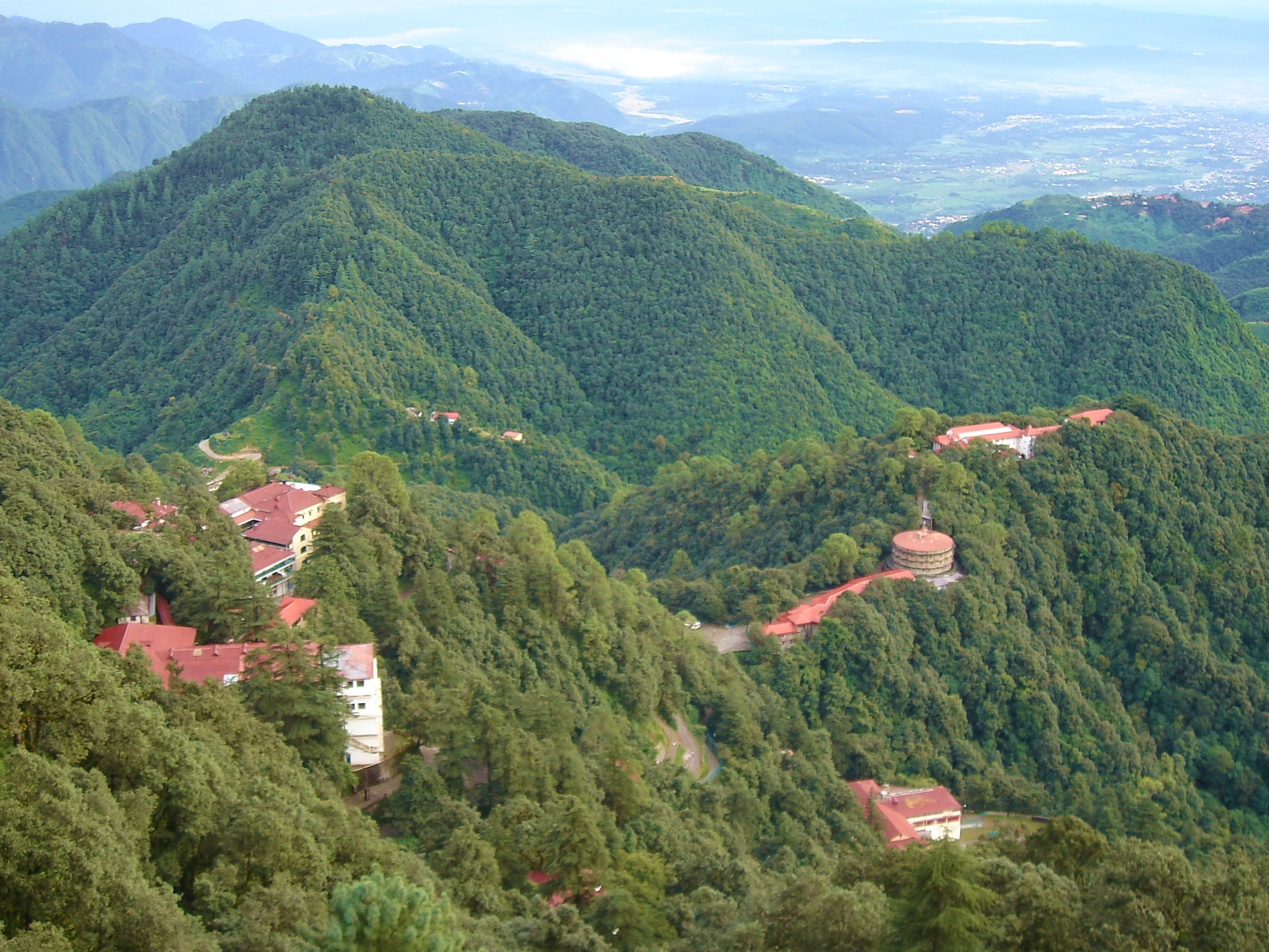 Woodstock's campus. Woodstock School is a Christian, international, co-educational, residential school located in Landour, a small hill station contiguous with the town of Mussoorie, Uttarakhand, India.